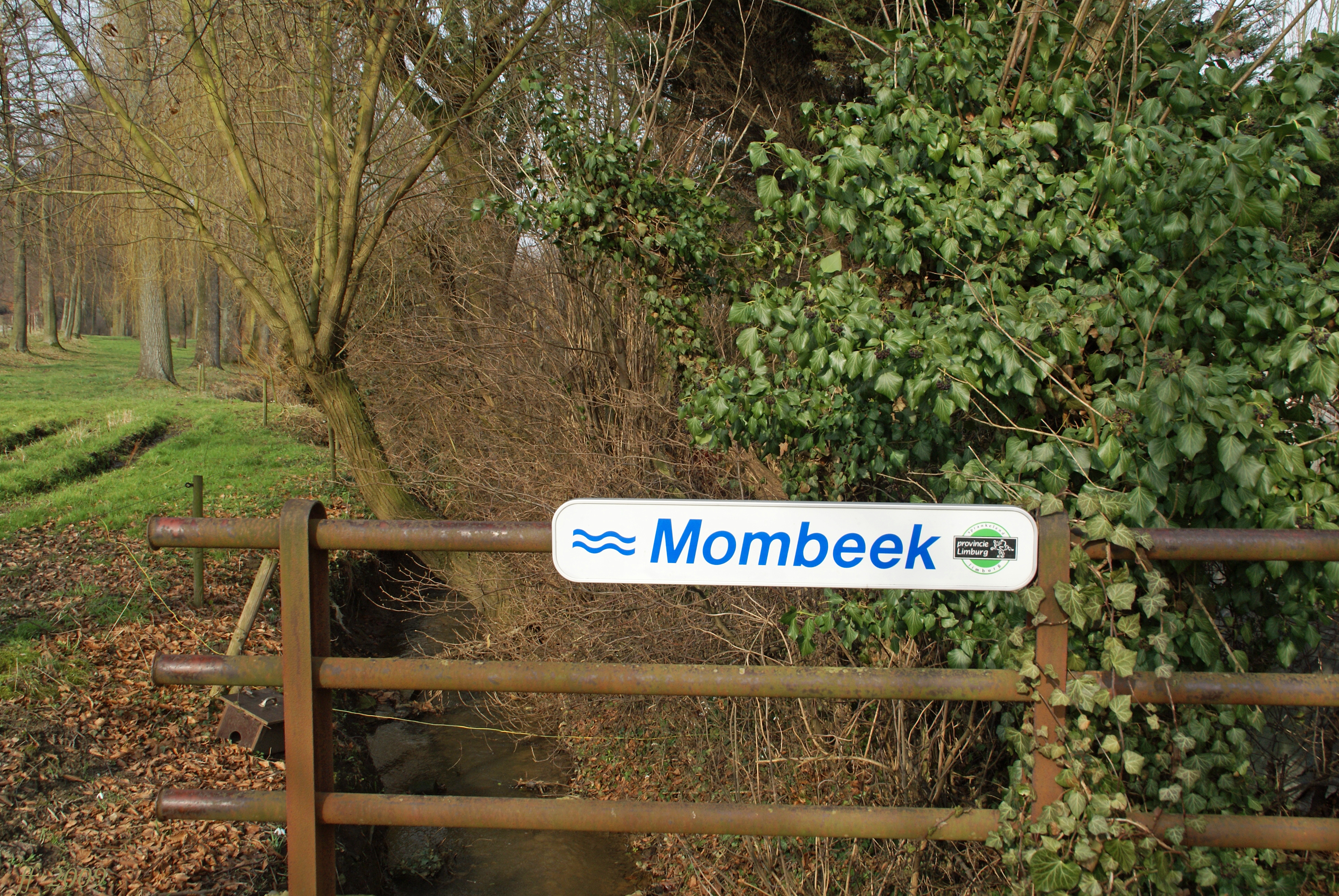 Widooie (Belgium): Mombeek river